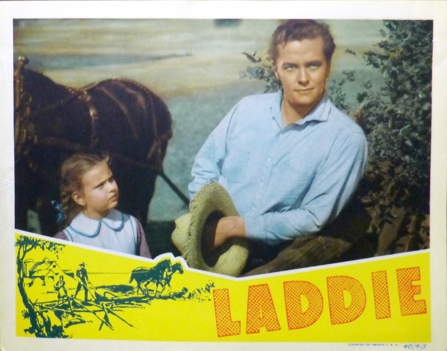 Lobby card for the American drama film Laddie (1940). Sister (Joan Carroll) and Laddie (Tim Holt). There are no copyright marks on the item, which can be seen at the link. At bottom right is Country of origin USA and 40/415.